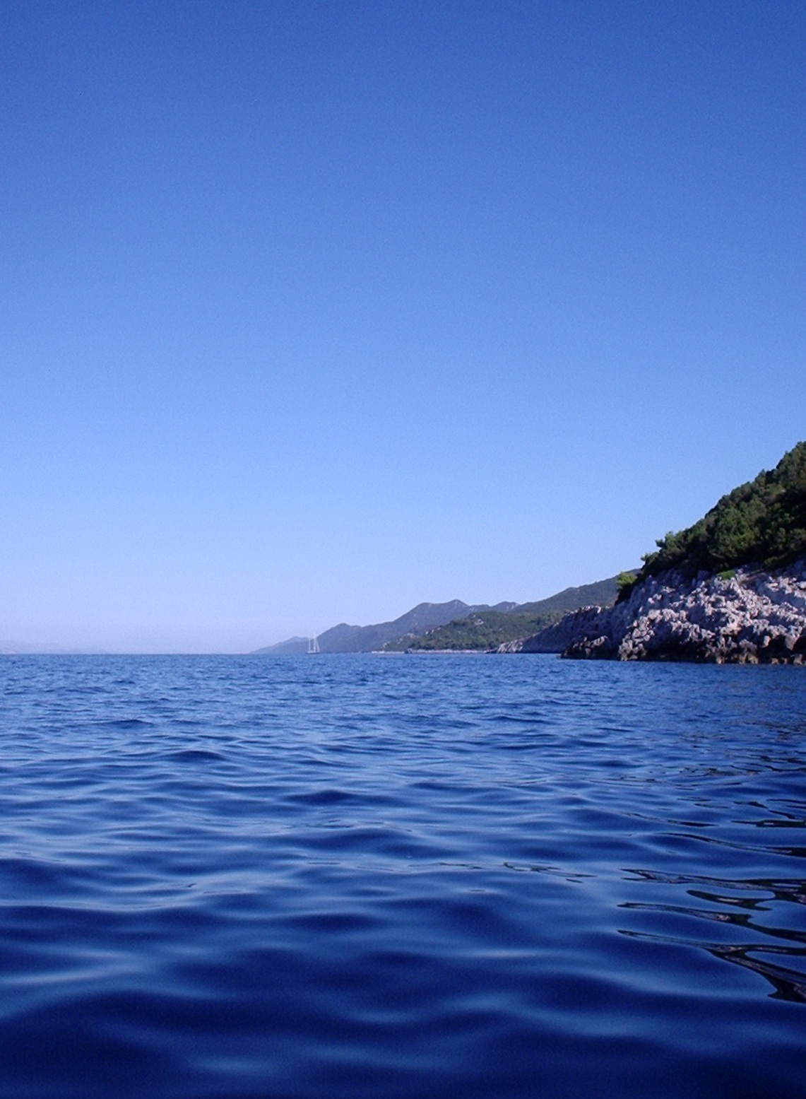 Mljet Chanel, Croatia